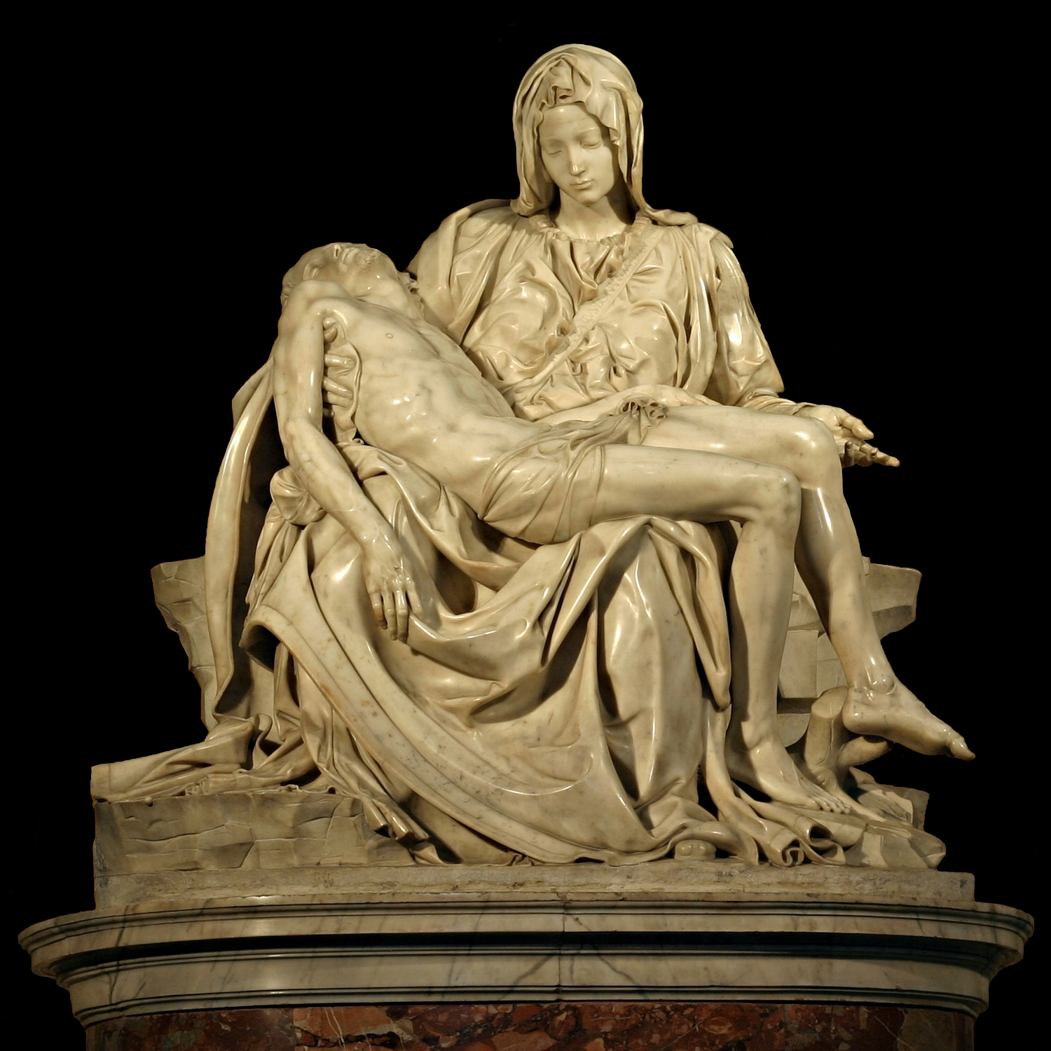 Michelangelo's Pietà in St. Peter's Basilica in the Vatican.Edit: Cut out and cropped.